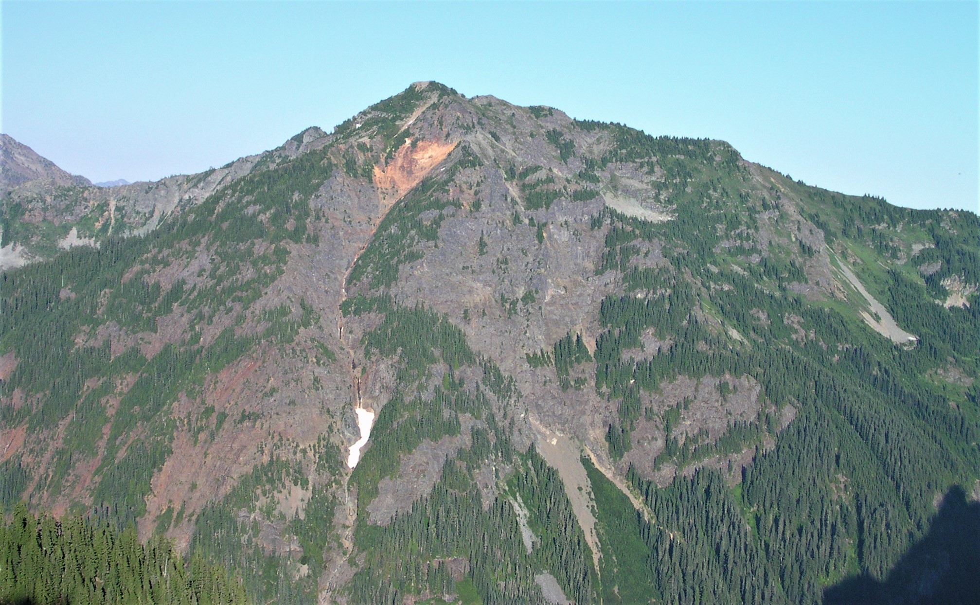 Alta Mountain from Kendall Catwalk